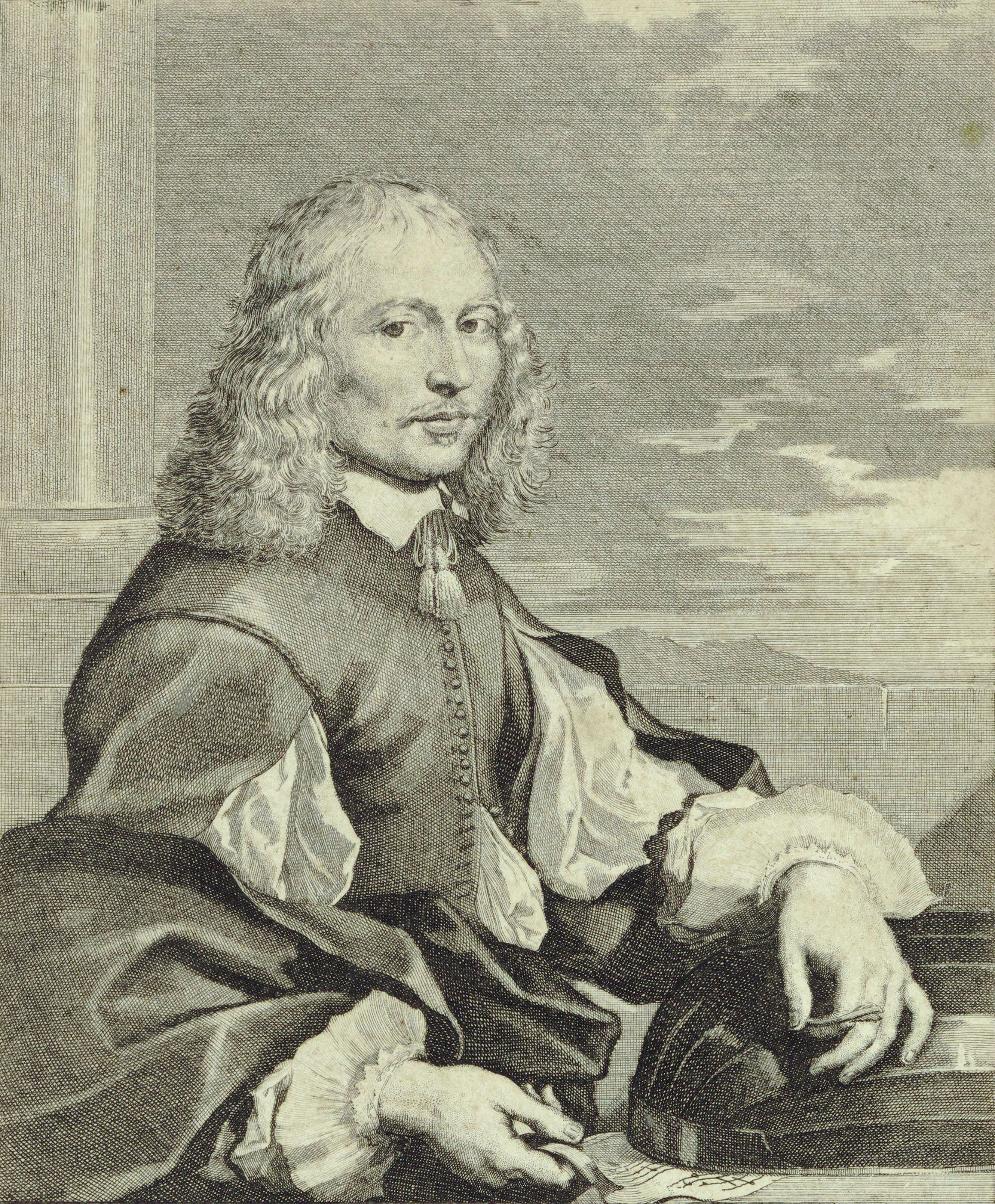 Depicted person: Nicolas Hotman